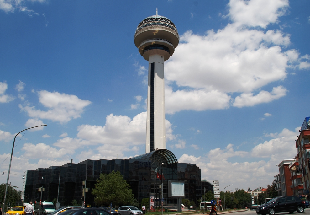 Atakule Tower in Ankara